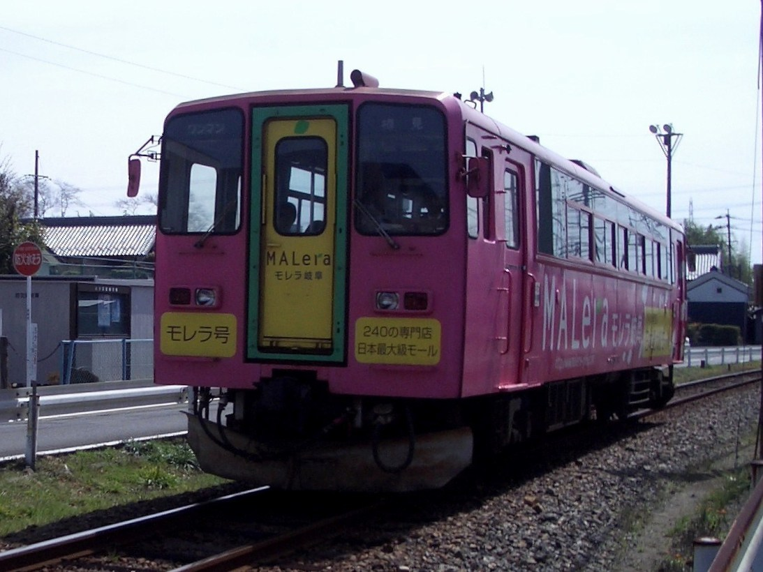 This is the picture of Himo230-314 (Tarumi Railway (Gifu Pref. JAPAN) ).